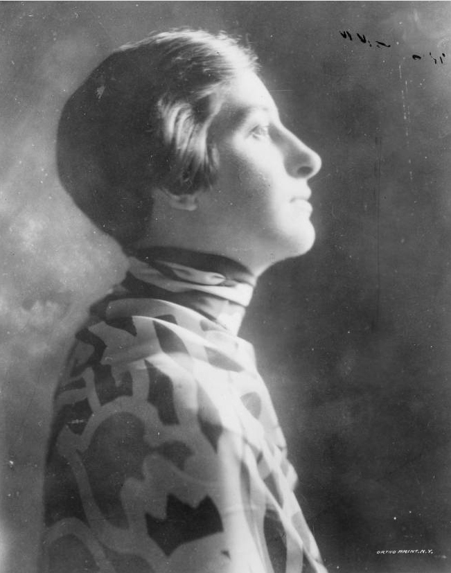 Publicity photograph of the American pianist Karin Dayas (1892–1971). No copyright notice could be found.